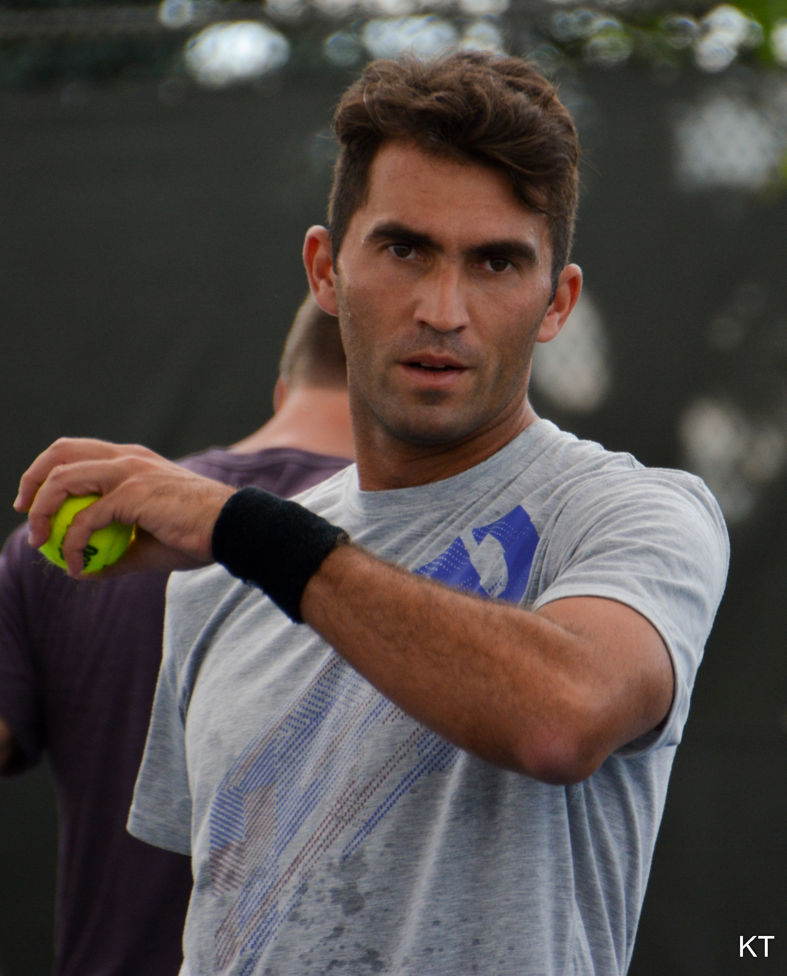 Coupe Rogers, Montreal 2015.